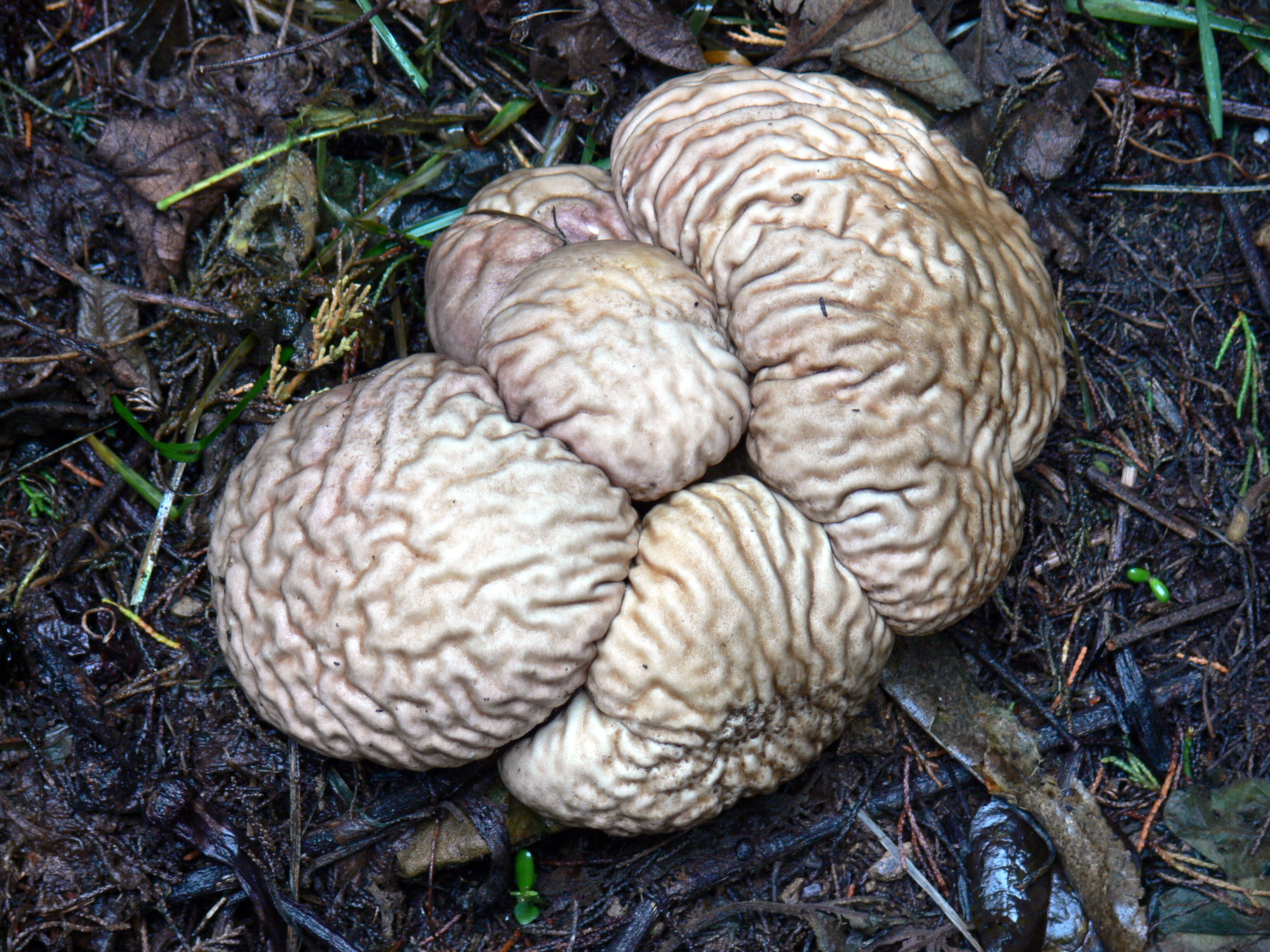 Fruit bodies of the puffball fungus Calvatia craniiformis. Found in Richmond foothills, Nelson, New Zealand. "Notes: Growing beneath Cupressus macrocarpa. Brain-like, hence the species name."